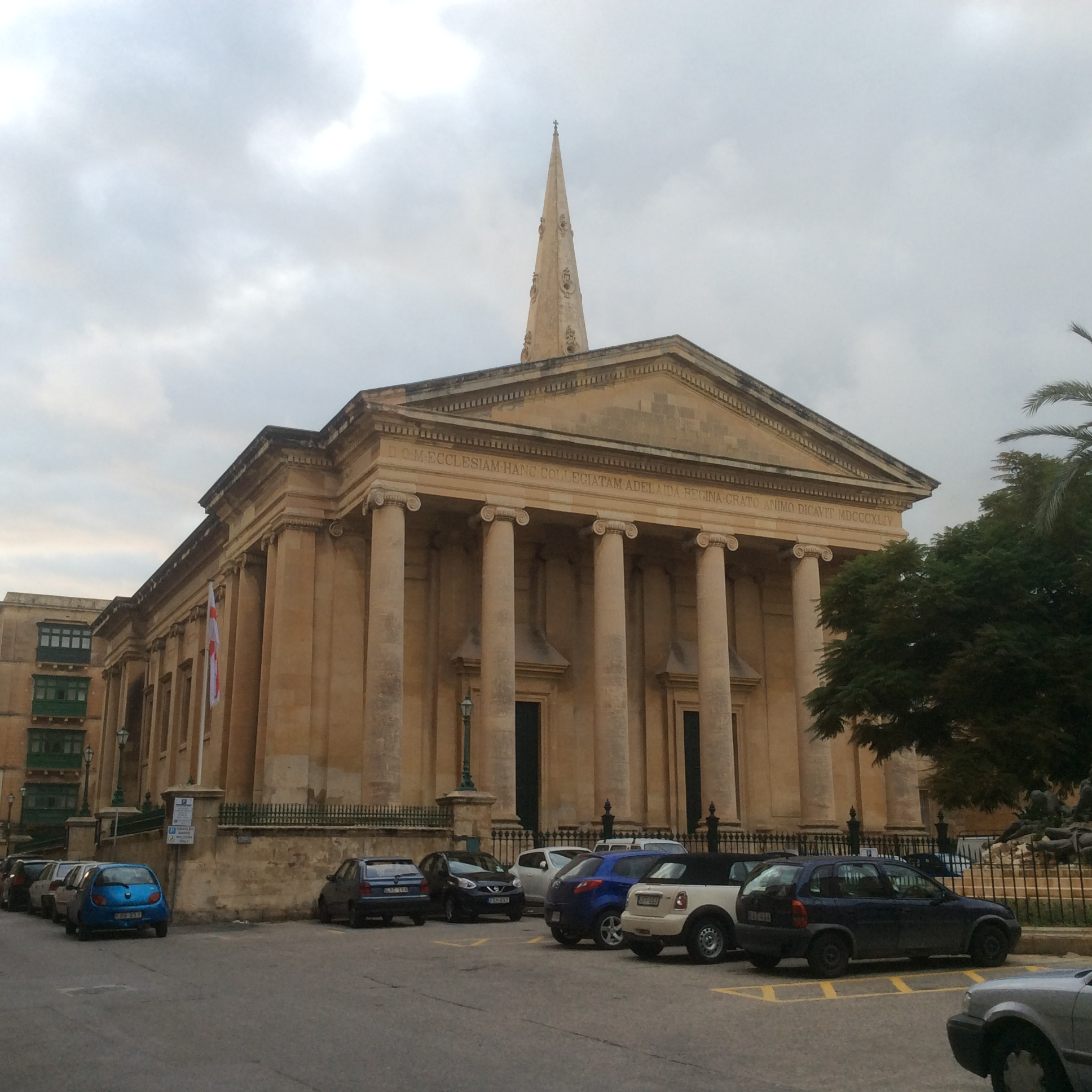 St. Paul Pro-Cathedral, Valletta, Malta